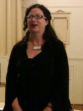 Australian space archaeologist Dr. Alice Gorman introduces a film about history of space exploration, at Camperdown, Australia.